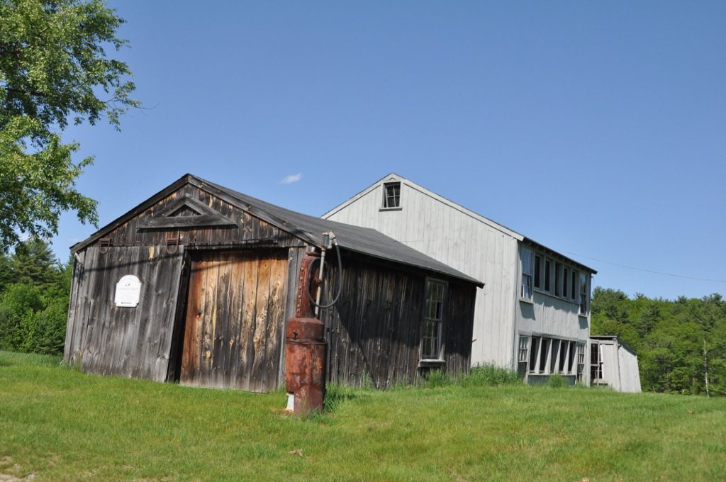 View of some of the outbuildings at the Lamson Farm in Mont Vernon, New Hampshire.